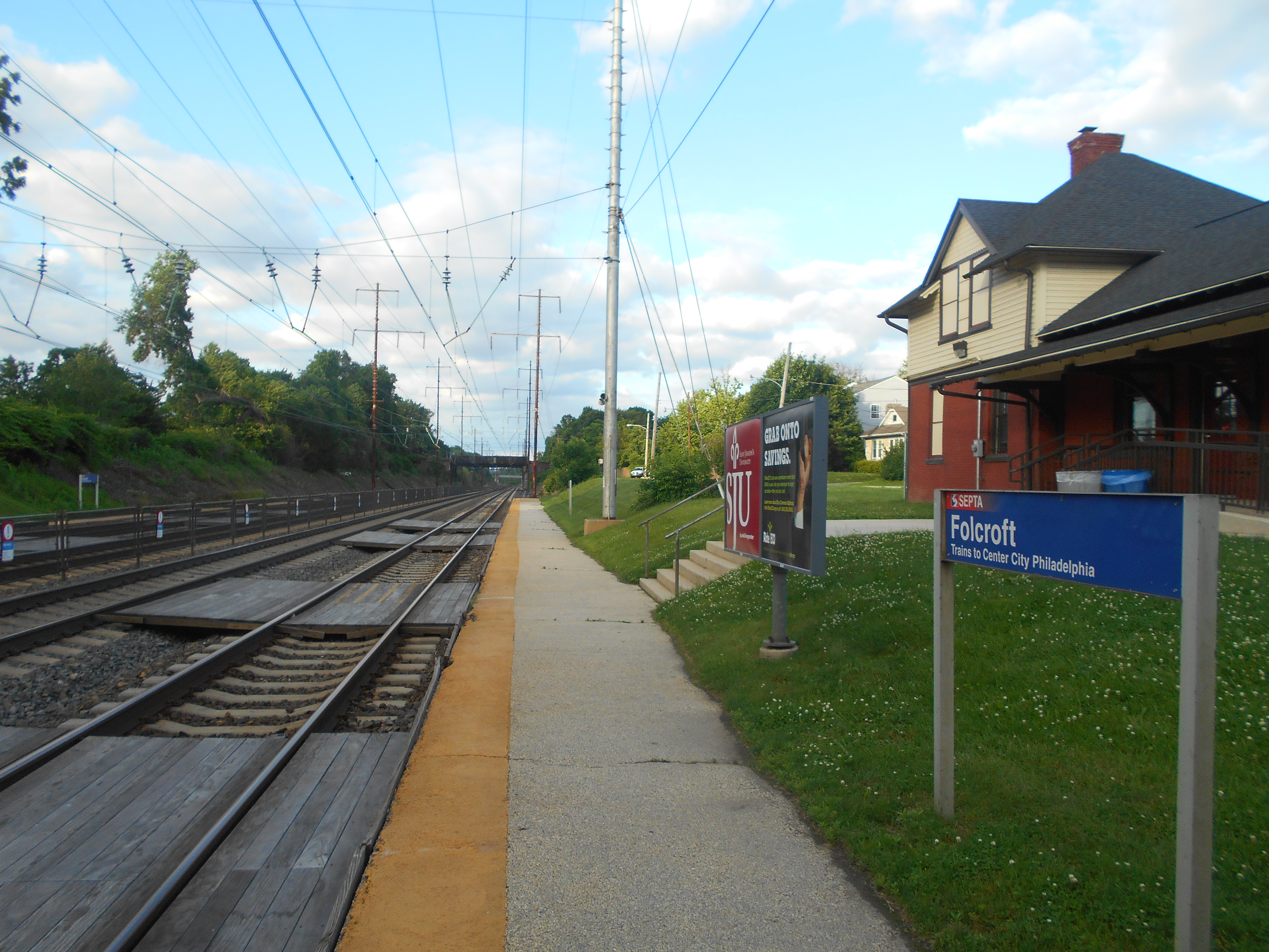 The Folcroft SEPTA Regional Rail station in Folcroft, Pennsylvania.